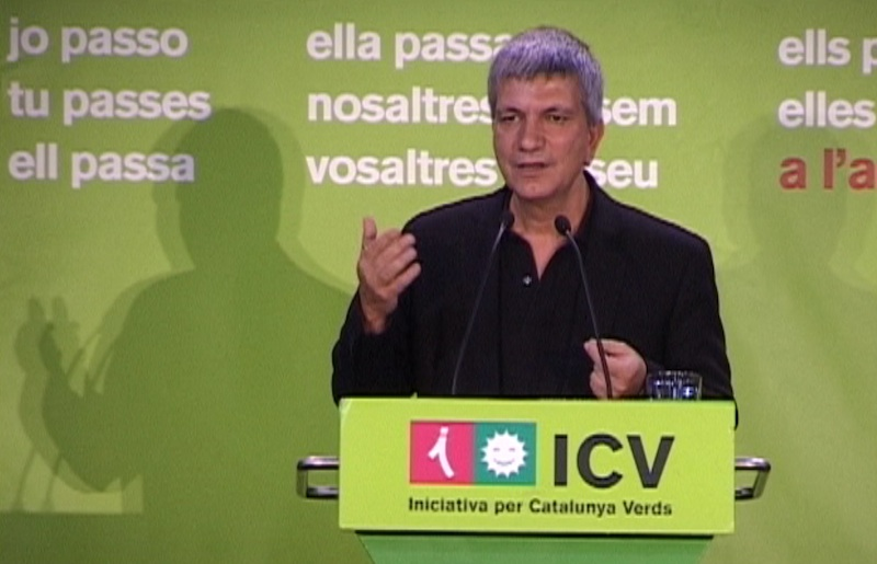 The Italian politician Nichi Vendola in Barcelona, on October 29 2011